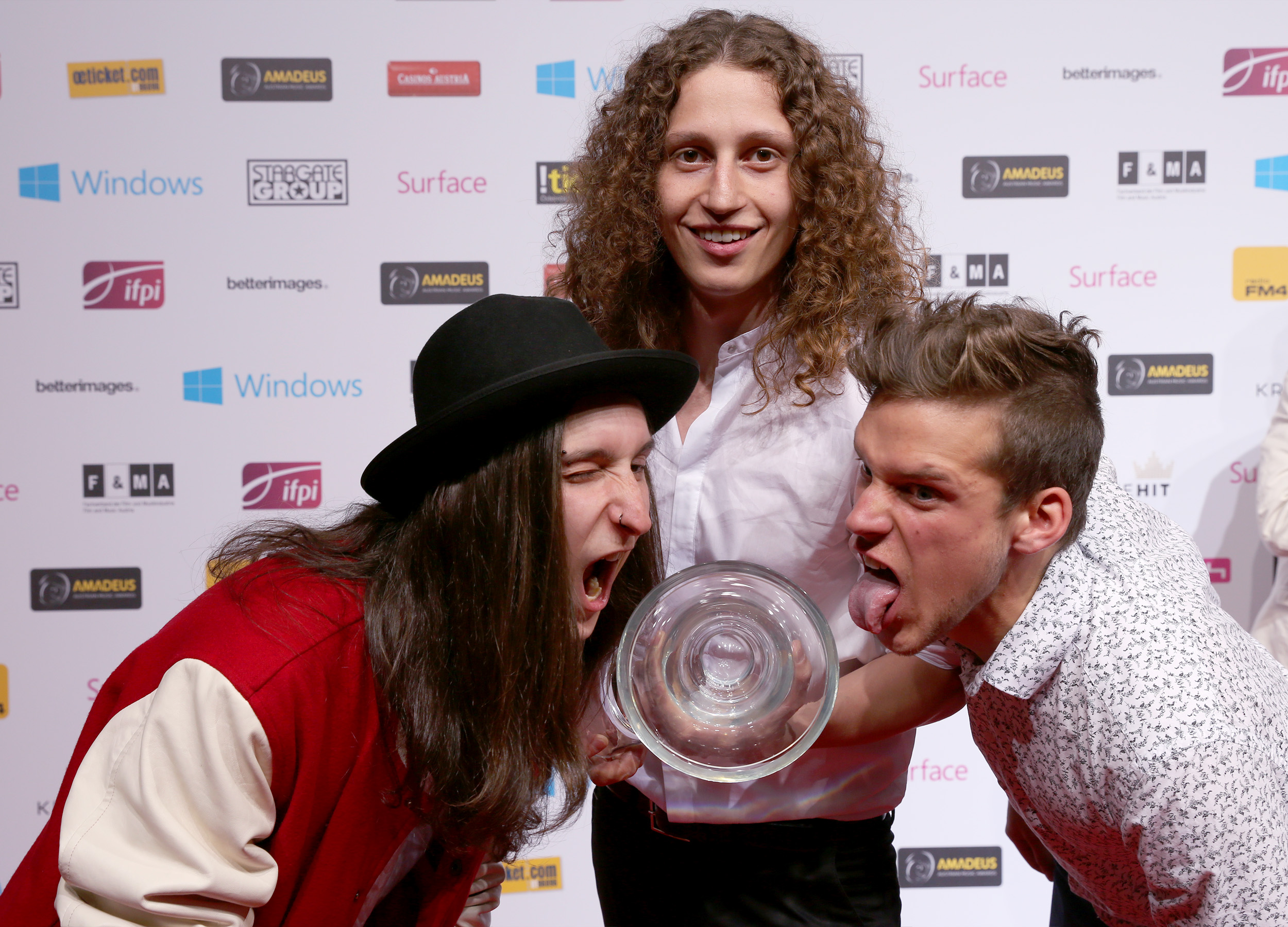 Kaiser Franz Josef at the Amadeus Austrian Music Award 2014 at Volkstheater in Vienna